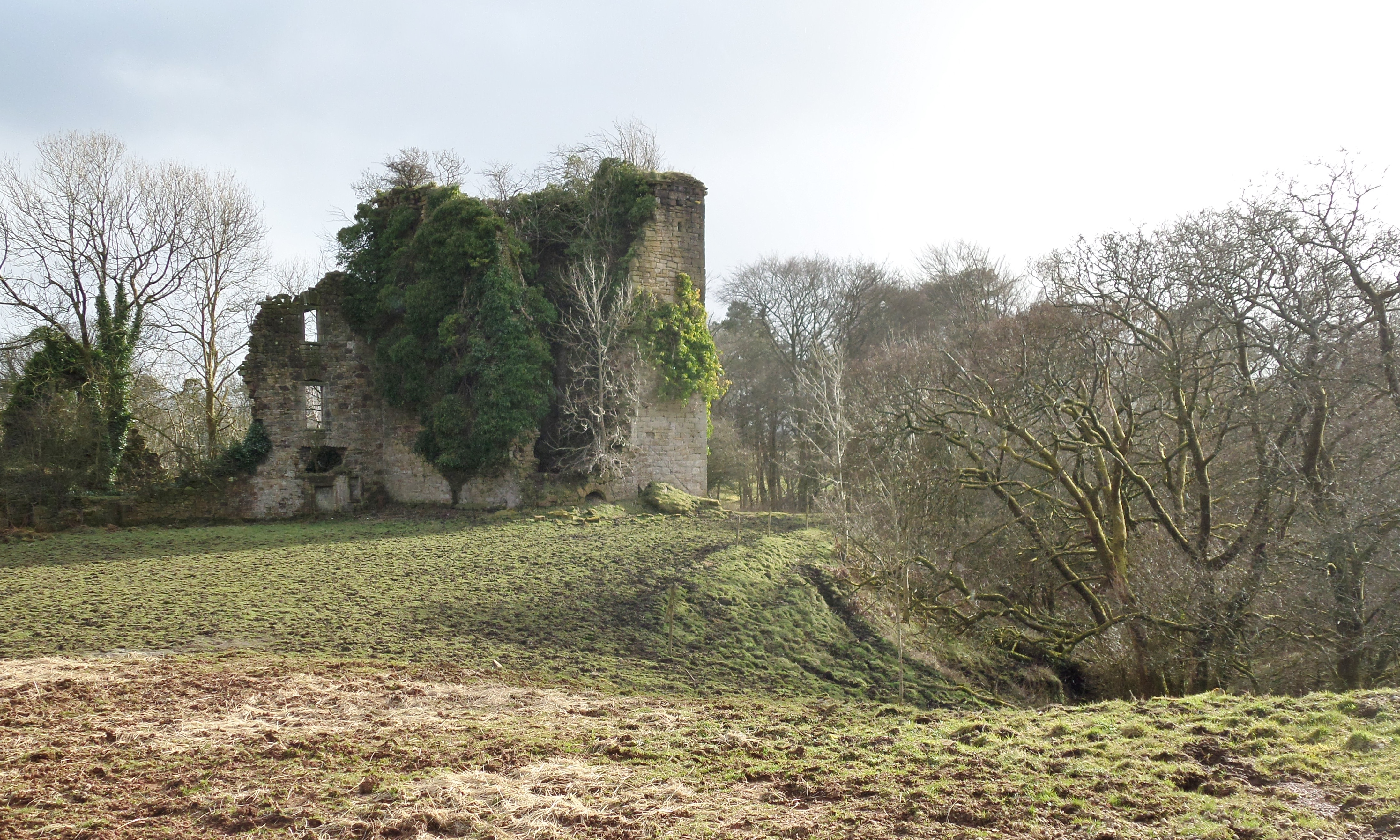 Kilbirnie Place from the north, North Ayrshire, Scotland.